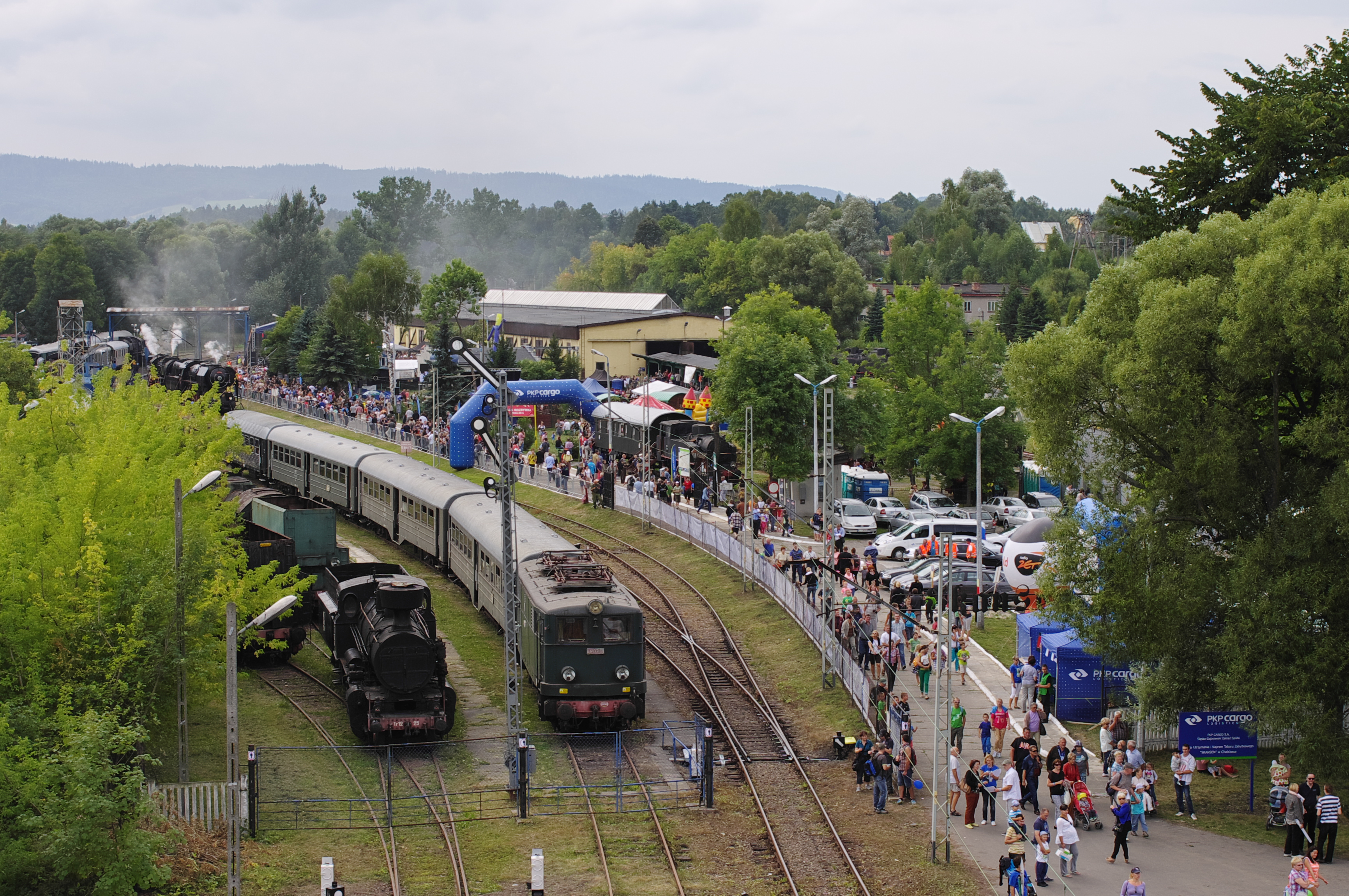 Parowozjada - a steam locomotive parade in Chabówka